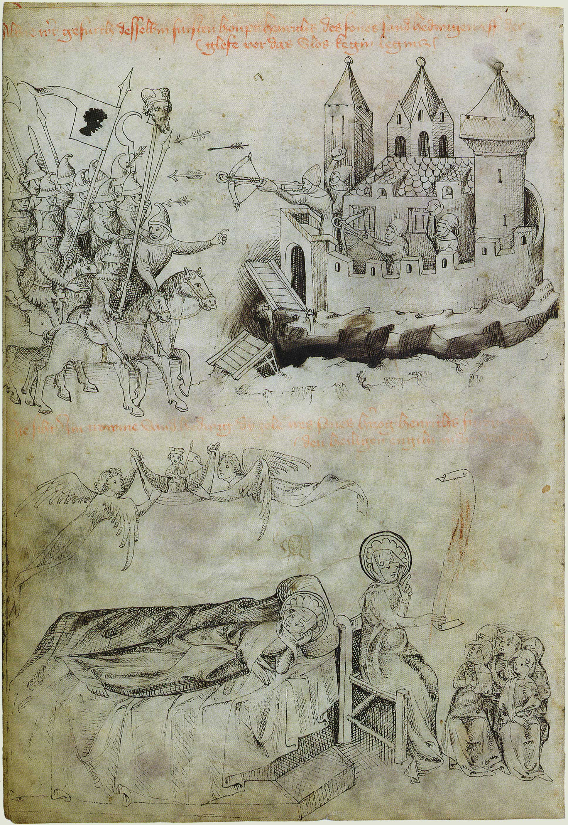 The Mongols at Liegnitz. They display the head of Henry II of Silesia. Freytag's Hedwig manuscript, 1451. Wroclaw University Library, Inv. no. IV F 192, fol. 6 v. See also Image:HedwigManuscriptLiegnitz_a.jpg and Image:HedwigAltar.jpg.